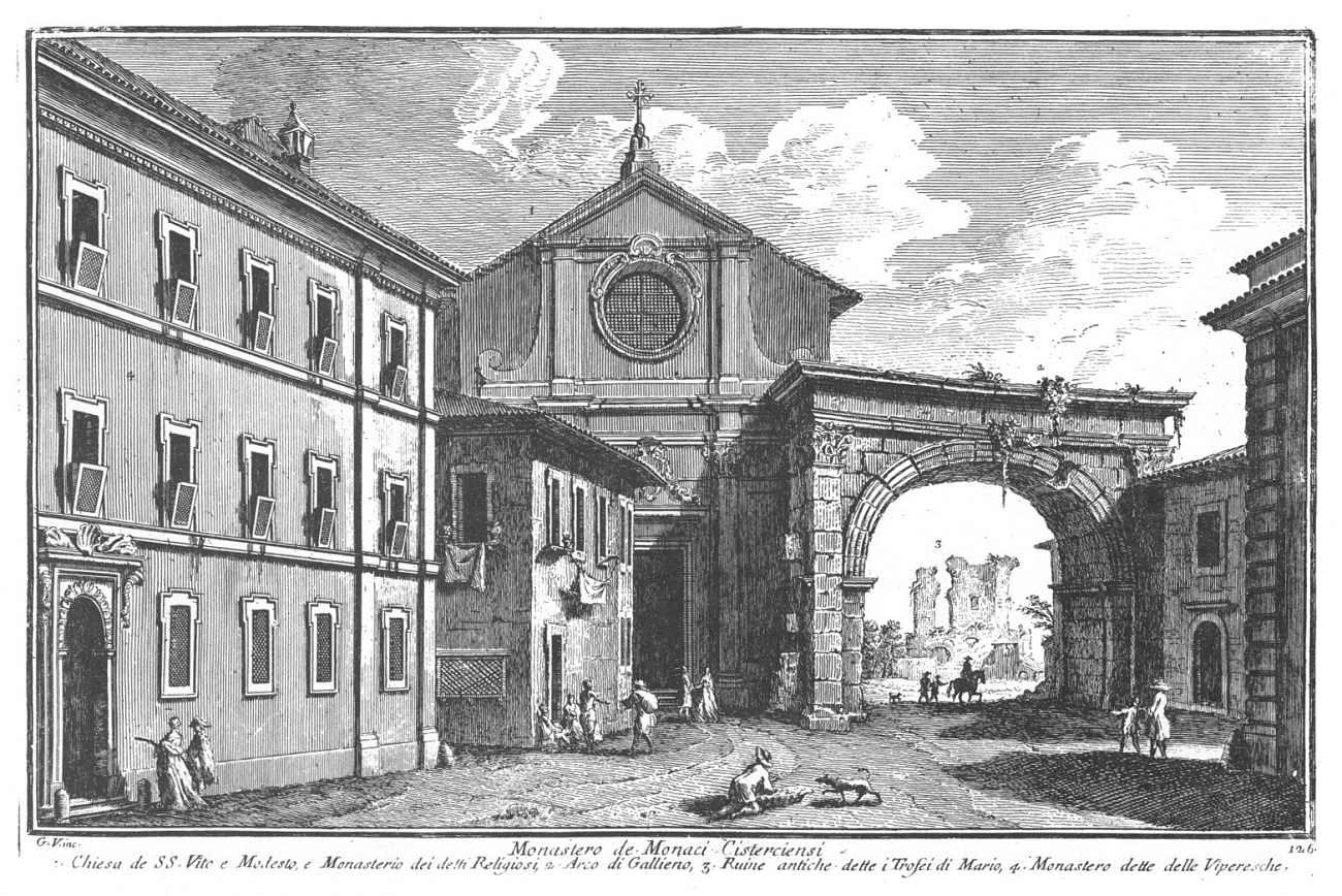 Vasi plate, depicting the Arco di Gallieno and the church of San Vito